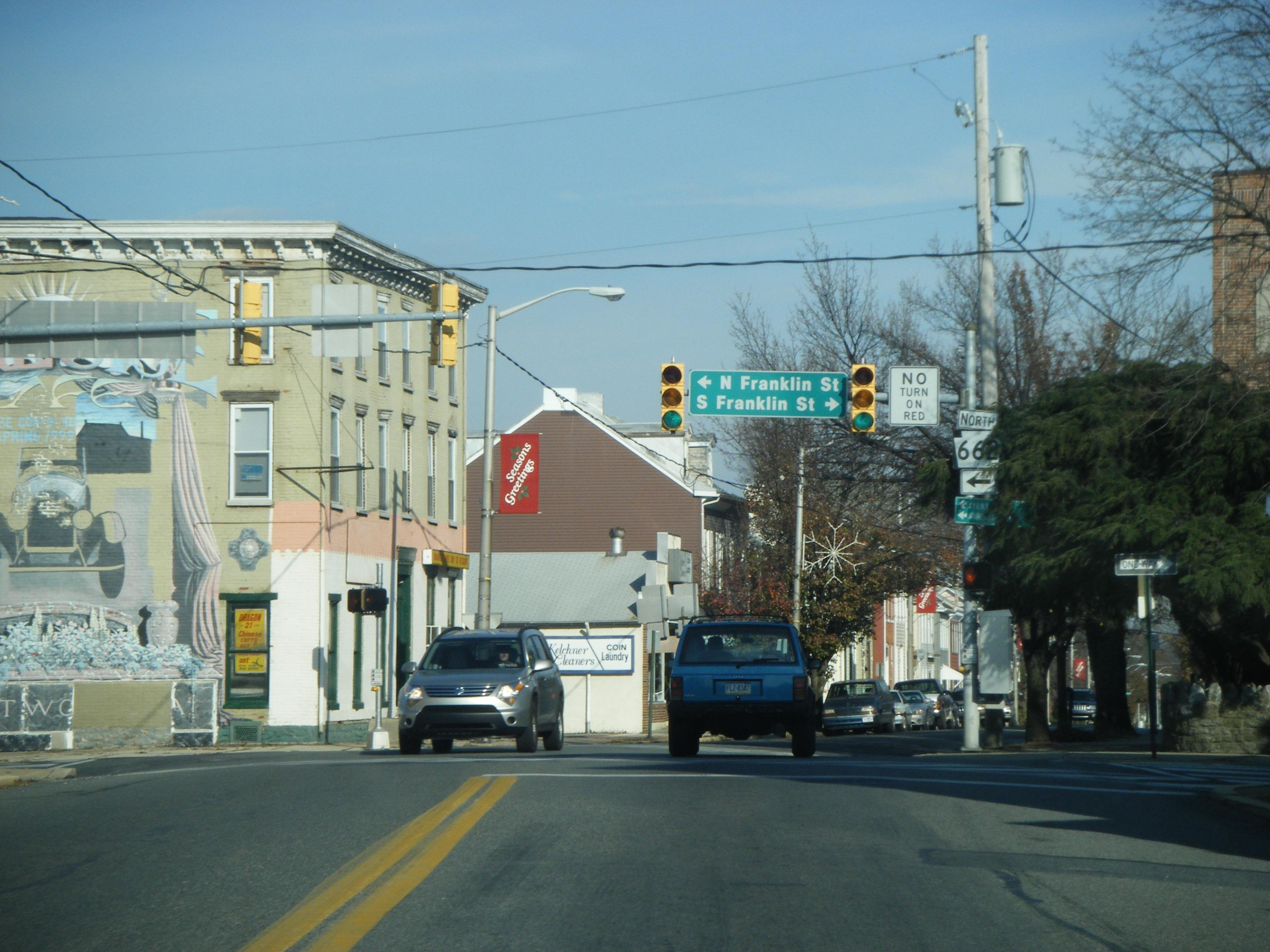 Northbound Pennsylvania Route 662 (Main Street) at the intersection with Franklin Street in Fleetwood, Pennsylvania where the route makes a left turn.